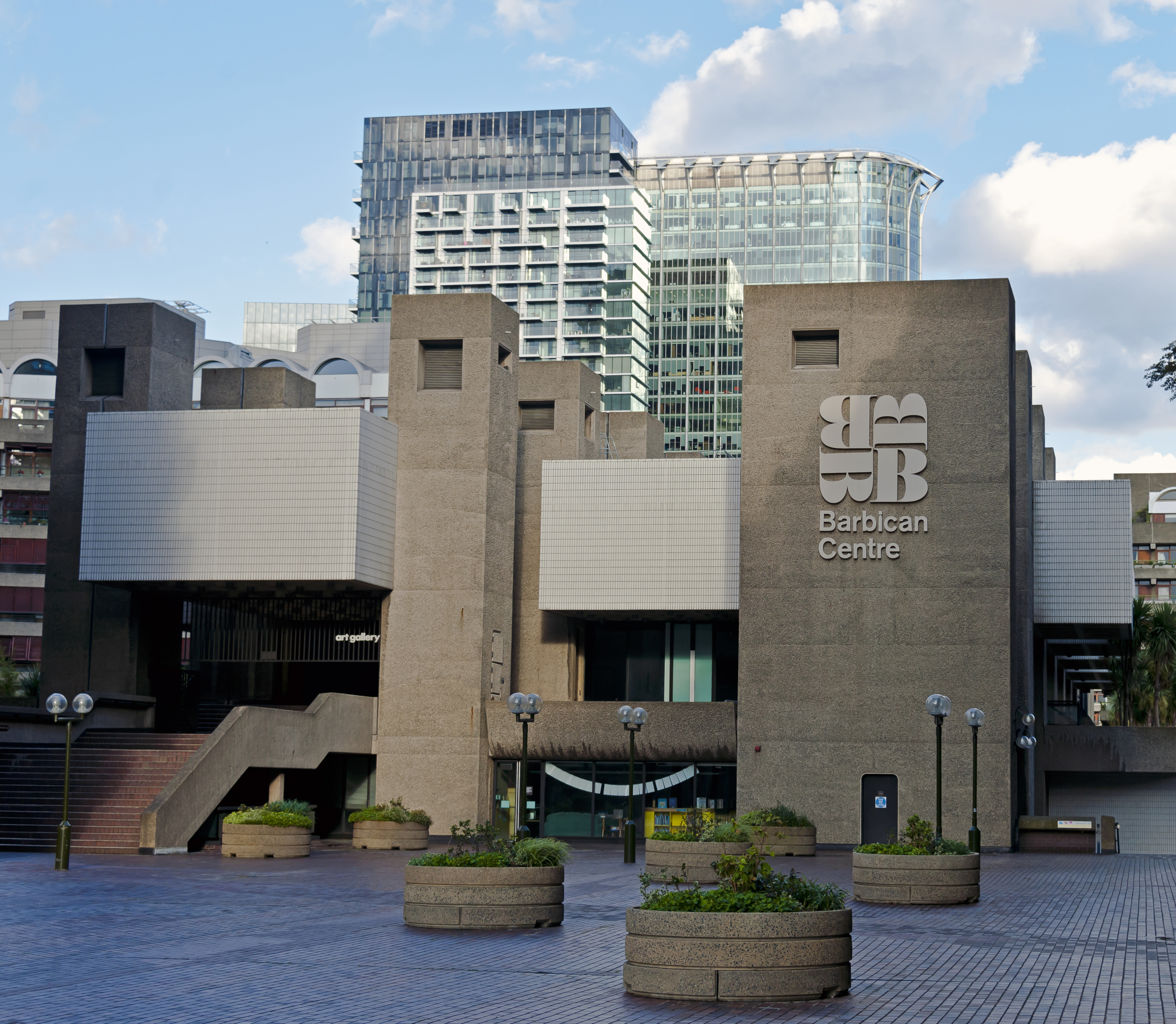 Barbican Centre building seen from the west in late afternoon